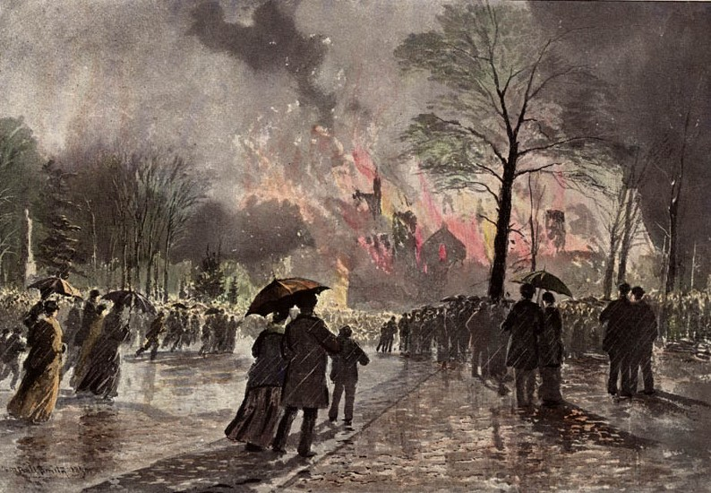 Illustration from Dominion Illustrated of the fire at University College, Toronto, Canada.